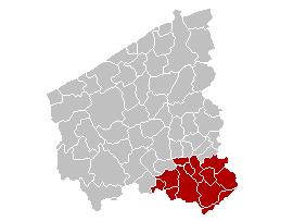 Map of the province West-Flanders, showing Kortijk arrondissement in red.